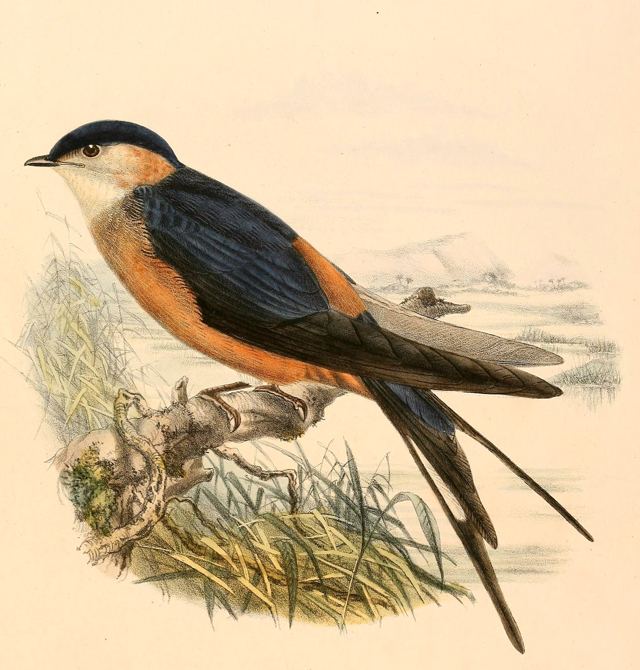 « Hirundo monteiri » = Cecropis senegalensis monteiri (Subspecies of Mosque Swallow)